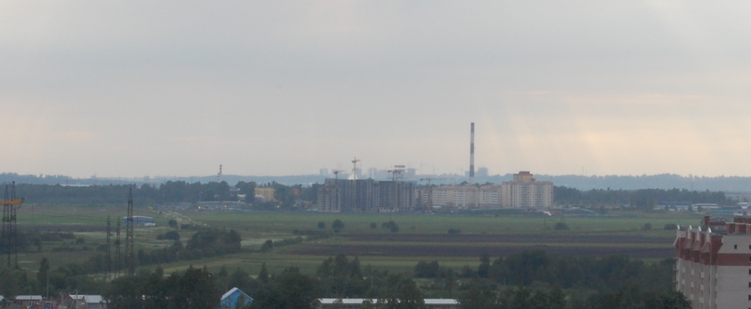 Bugry Settlement (Leningrad Region, Russia), viewed from the adjasent settlement